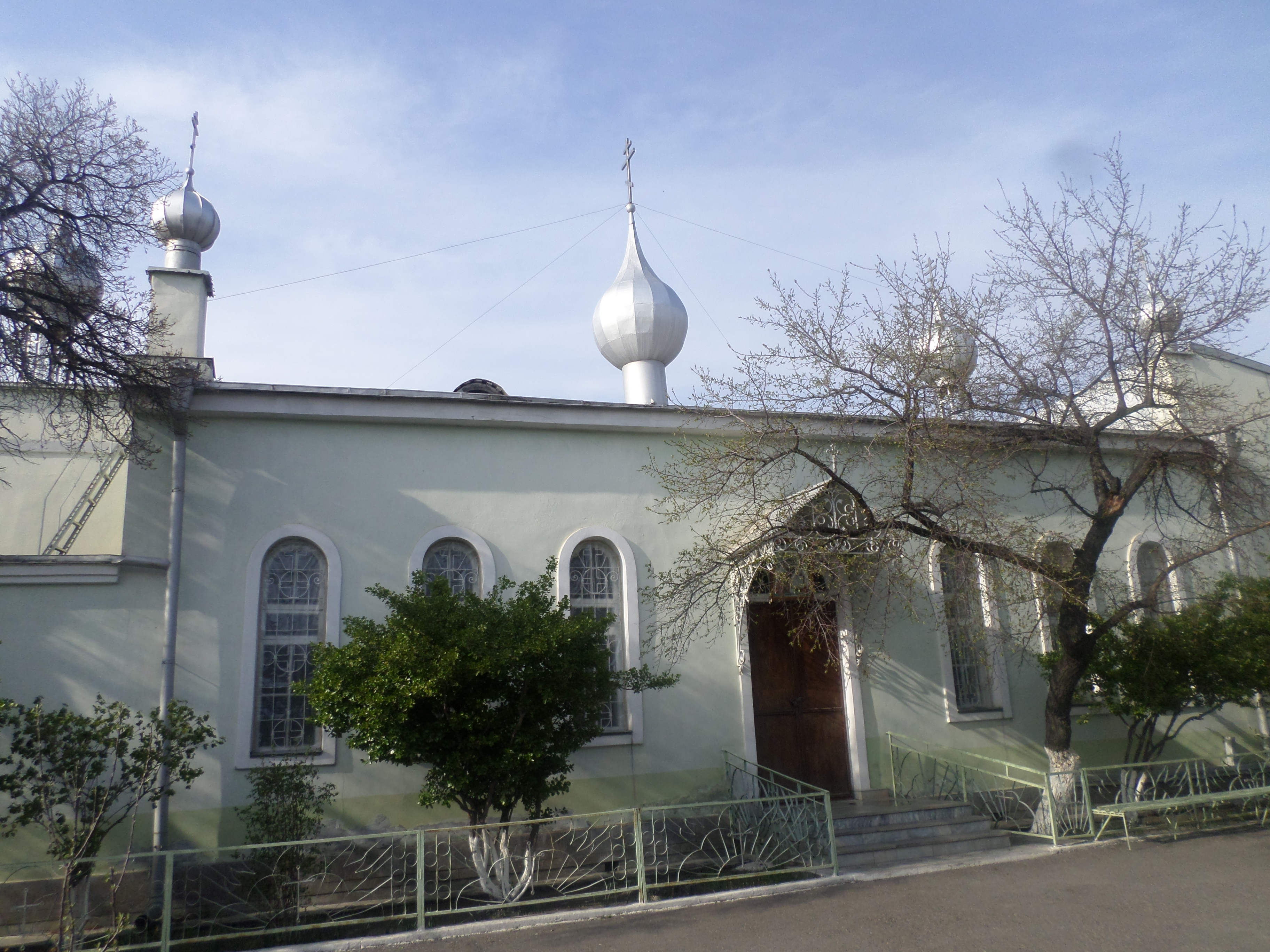 Church of the Kazan Icon of the Mother of God in Kokand, Uzbekistan